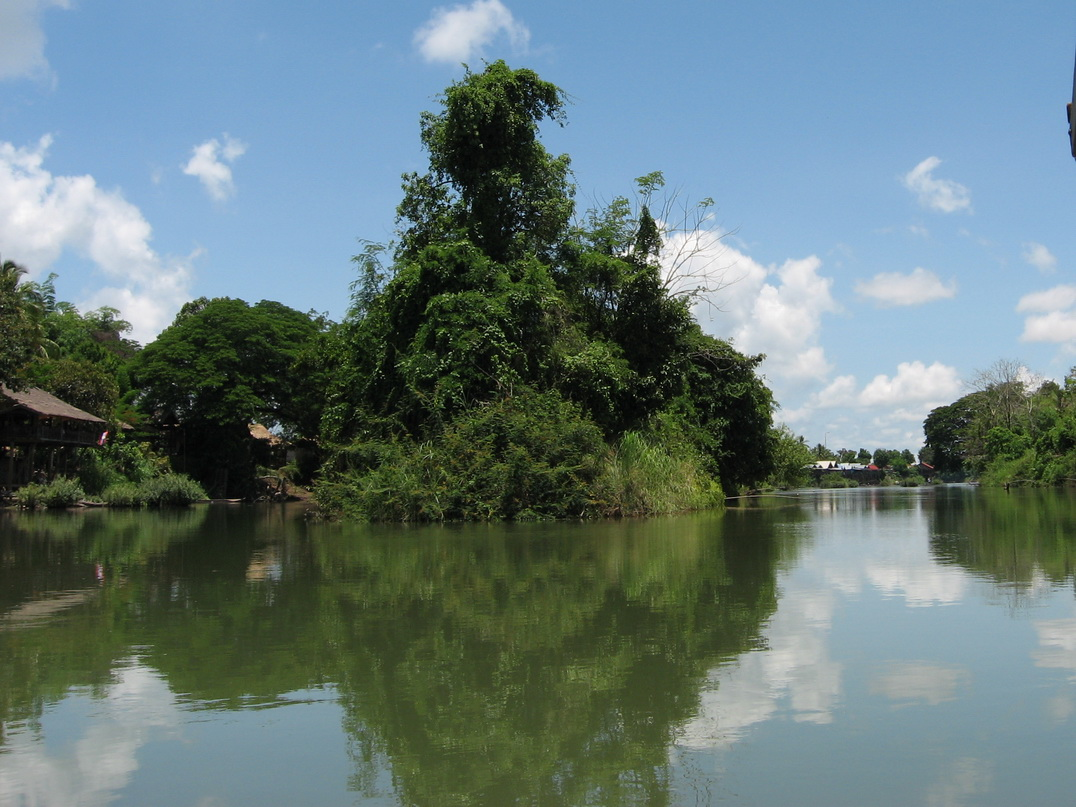 Si Phan Don, 4000 island, Laos